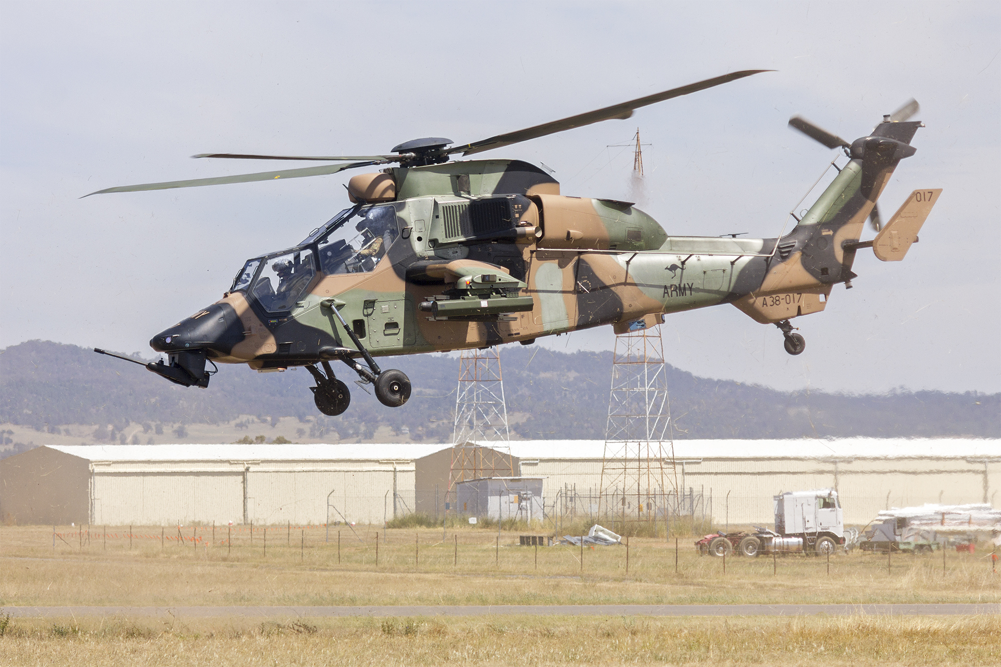 Australian Army (A38-017) Eurocopter EC-665 Tiger ARH departing Wagga Wagga Airport.